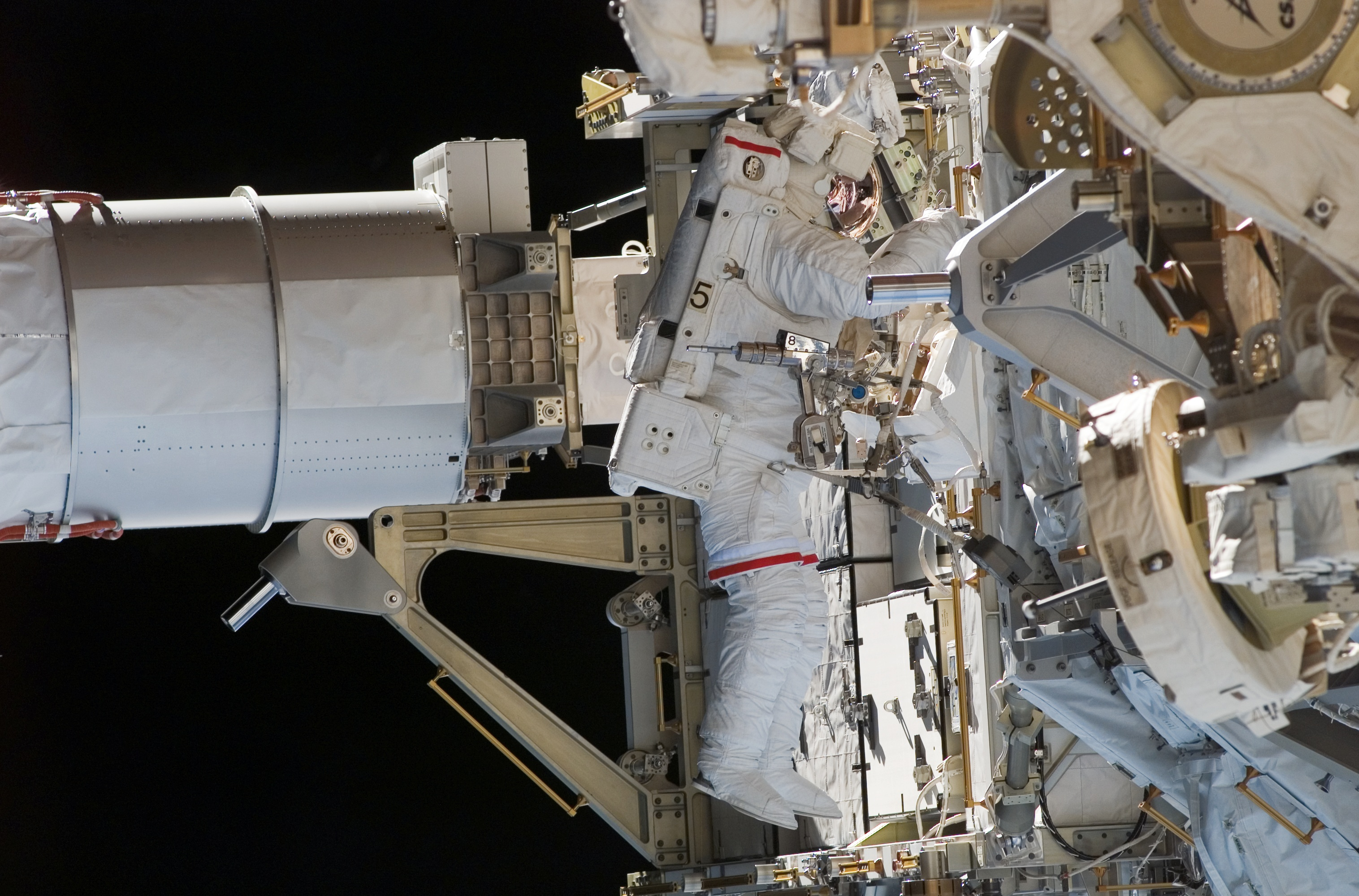 Astronaut Jim Reilly participate in the mission's first planned session of extravehicular activity, as construction resumes on the International Space Station